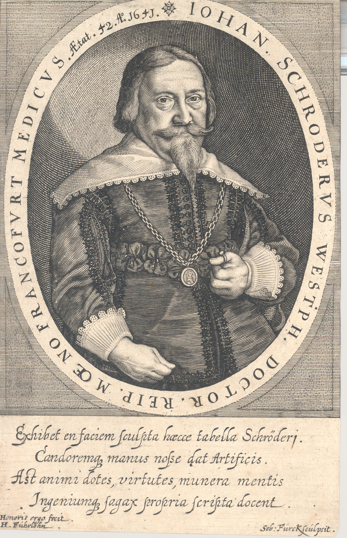 Johann Schröder (1600–1664), German physician, image from 1641